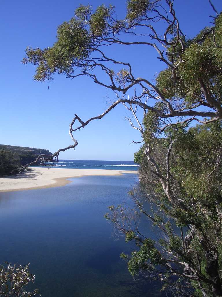 Wattamolla beach in the Royal National Park, Australia.